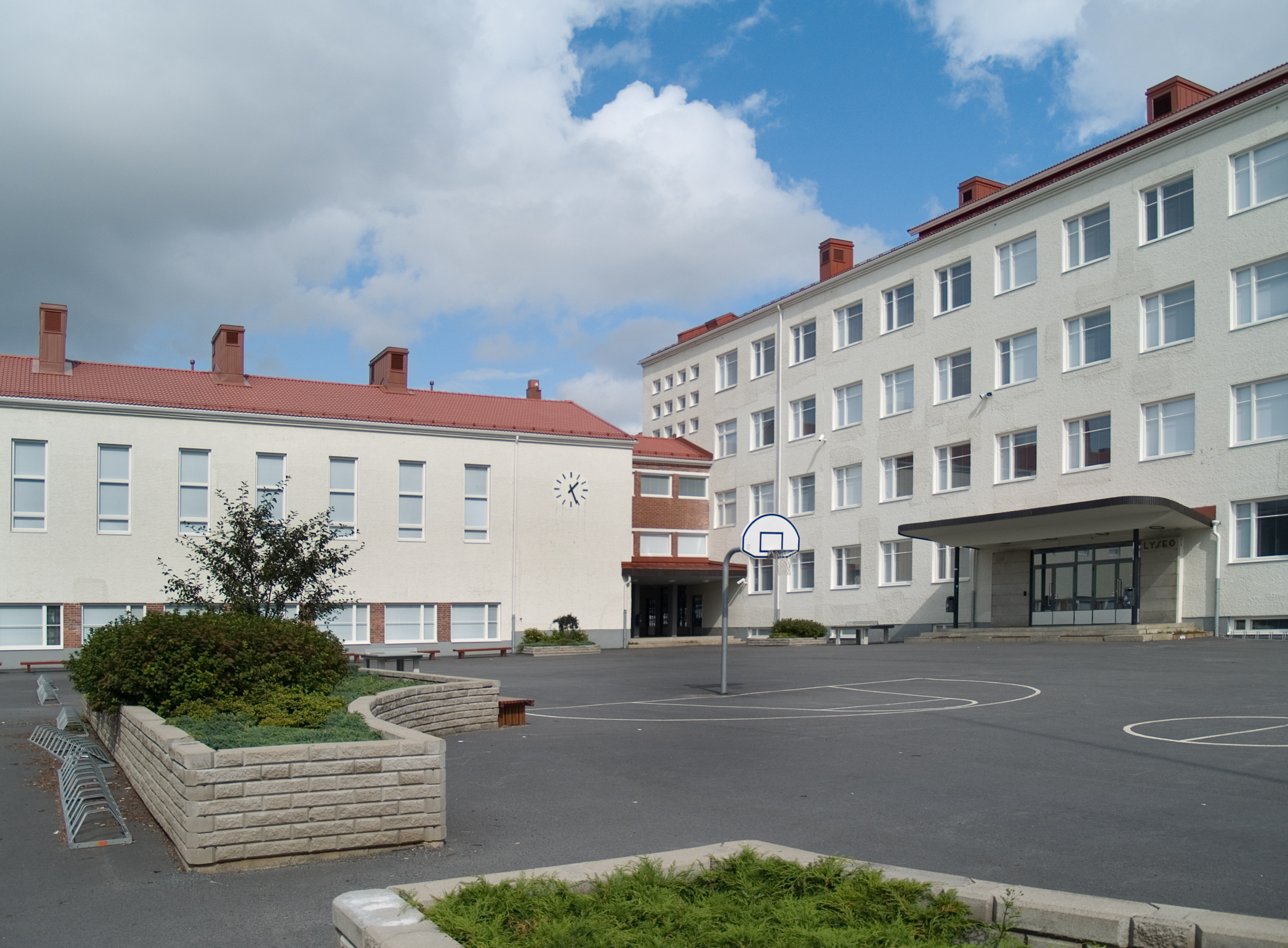 Seinäjoki lyceum (Seinäjoen lyseo), secondary school, centre of Seinäjoki, Finland. Architect Sylvi Erno, completed 1955.